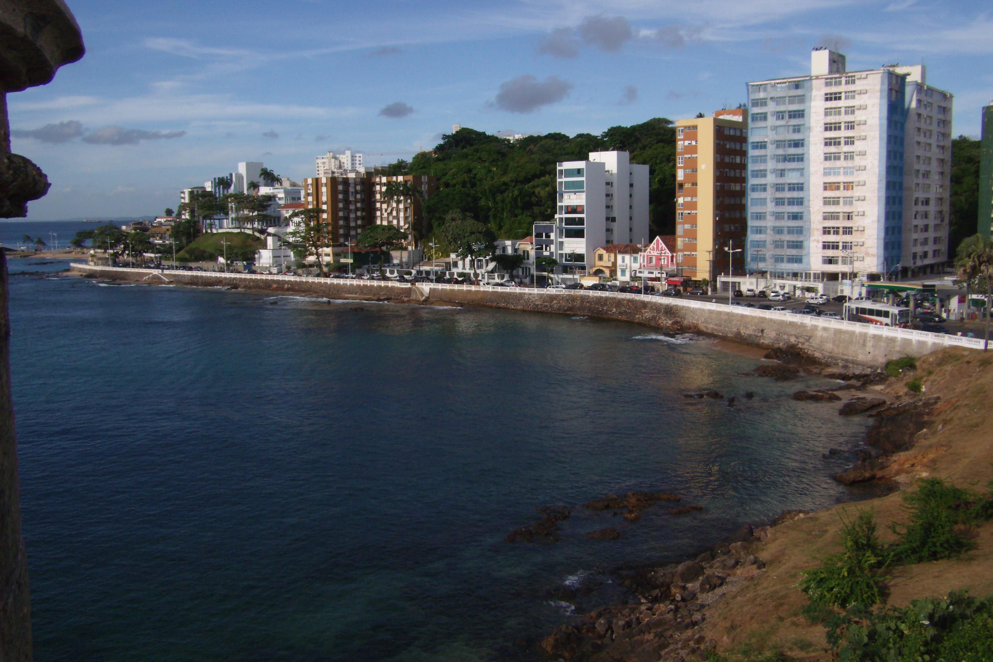 PT: A praia do Porto da Barra está situada no bairro da Barra, banhada pela Baía de Todos os Santos. Localiza-se no bairro da Barra; limita-se ao sul pela encosta que é formada pela Ladeira da Barra, passando pelo Hospital Espanhol indo até o Farol da Barra, passando pela fortaleza de Santa Maria. (Fonte: Wikipédia) EN: Porto da Barra Beach is located in the city of Salvador, Bahia. It is located at the entrance of the Bahia de Todos os Santos, with a small, white colonial fort at one end and a whitewashed church sitting up on a hill at the other. As the beach is in a bay, the water is calm (given that it is right in the heart of Brazil's third-largest city) . And in a country with over 7,000 km of east-facing coastline, the Porto is one of the few facing west, and sunsets can be seen from there. (By: Wikipedia)